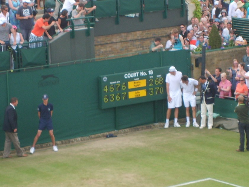 Players Isner and Mahut and referee Lahyani watch the scoreboard of tennis longest match, Wimbledon 2010.